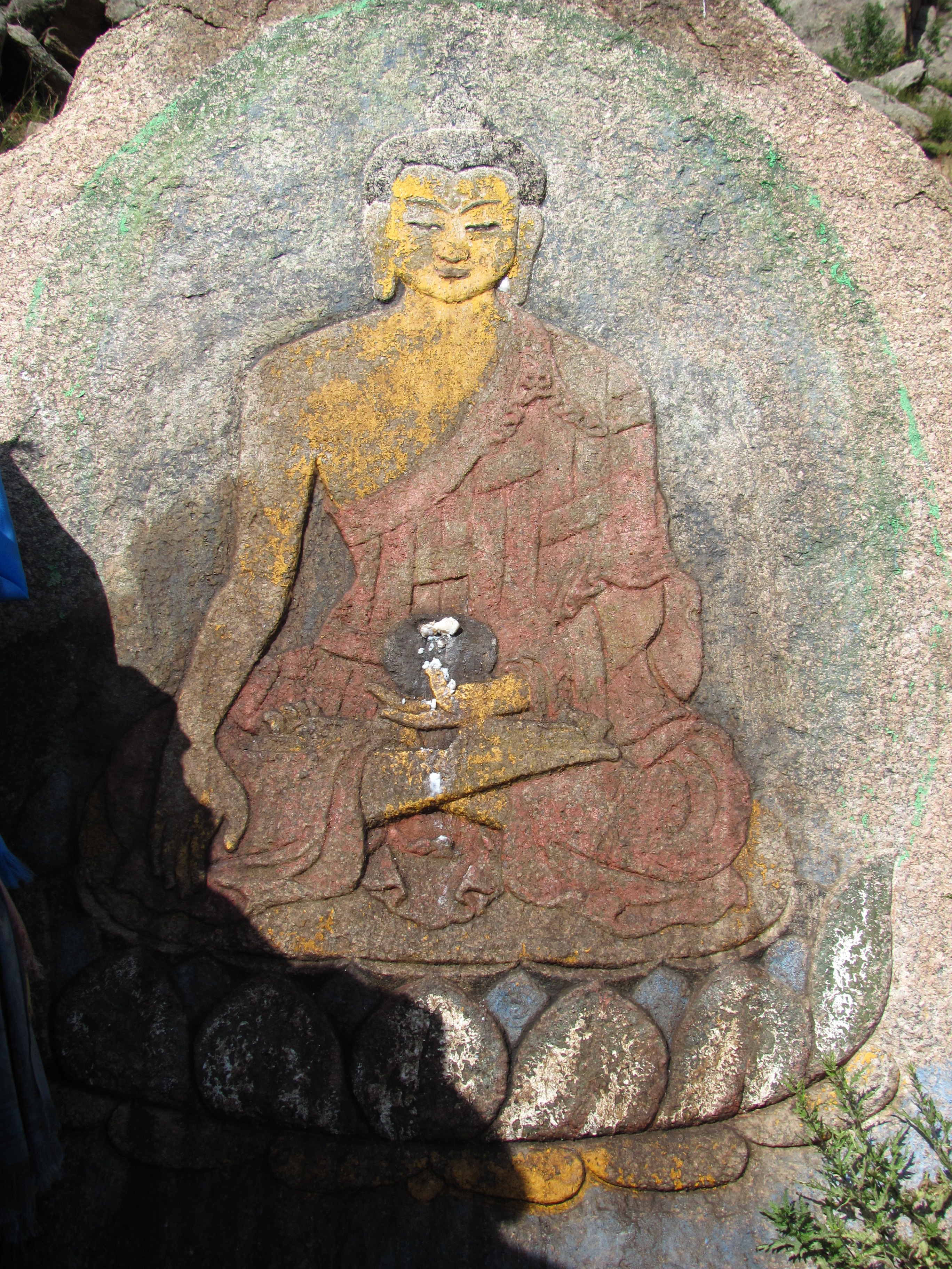 Buddhist relievo (18th century), Mandzushirin Khiid, Zuunmod, Mongolia.